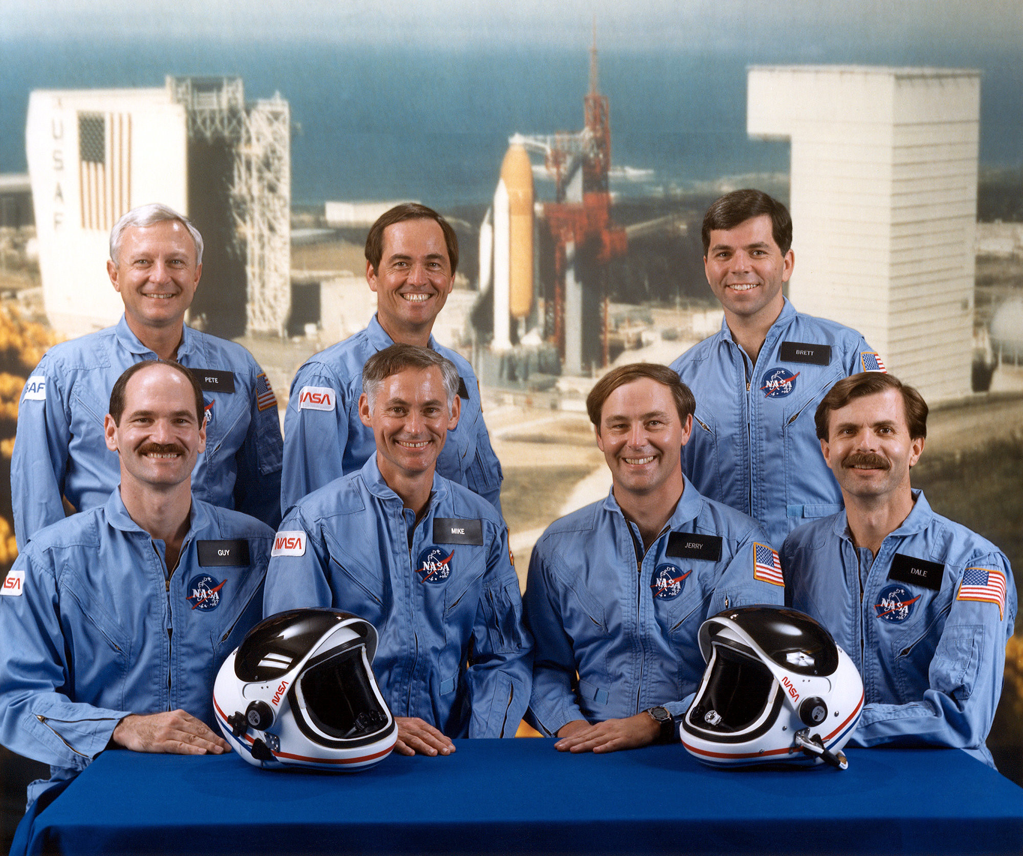 STS-62A crew portrait -- the crew takes time out from training to pose for this portrait. STS-62A is scheduled to be the first launch from Vandenberg AFB, California. The crew for this DOD mission are astronauts (front row, left to right) Guy S. Gardner, pilot; Richard M. Mullane, MS; Jerry L. Ross, MS; and Dale A Gardner, MS. In the back row (left to right) are astronauts Edward "Pete" C. Aldridge, Jr, DOD PS; Robert L. Crippen, commander; and Brett Watterson, DOD PS.